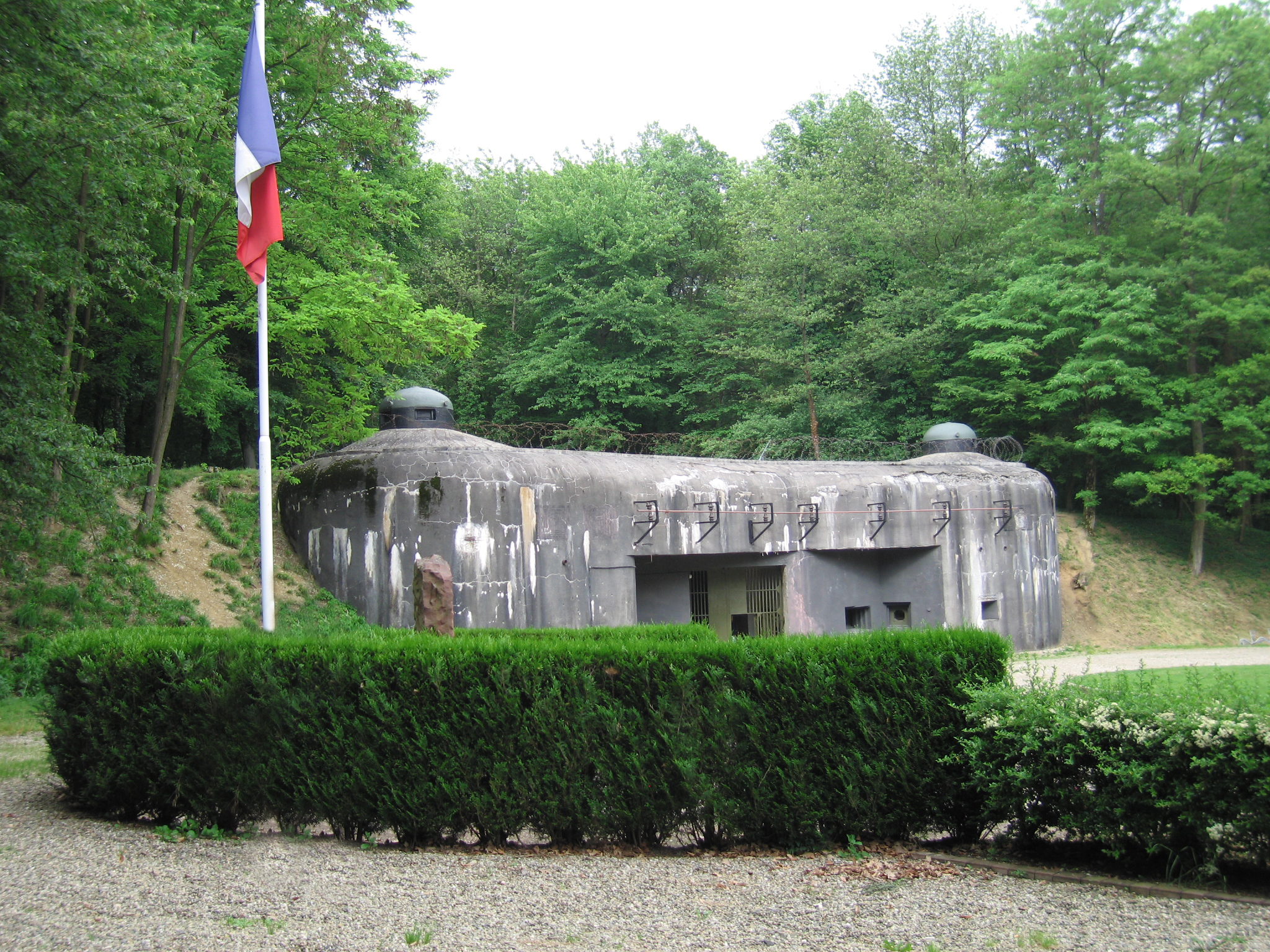 The amunitions entrance to Ouvrage Schoenenbourg along the Maginot Line in Alsace.